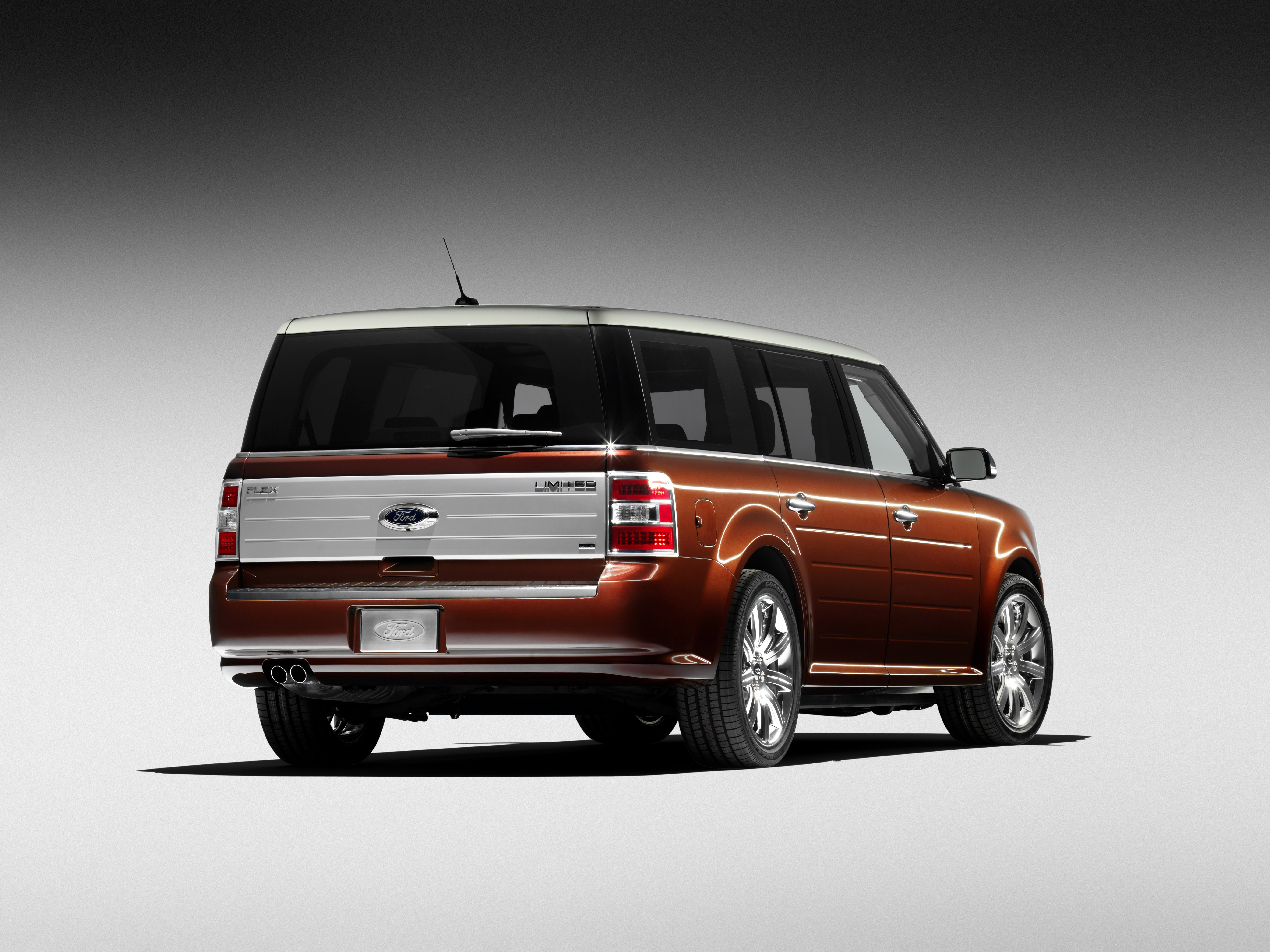 Publicity shot of the 2009 Ford Flex, kindly released under an acceptable licence by the Ford Motor Company.